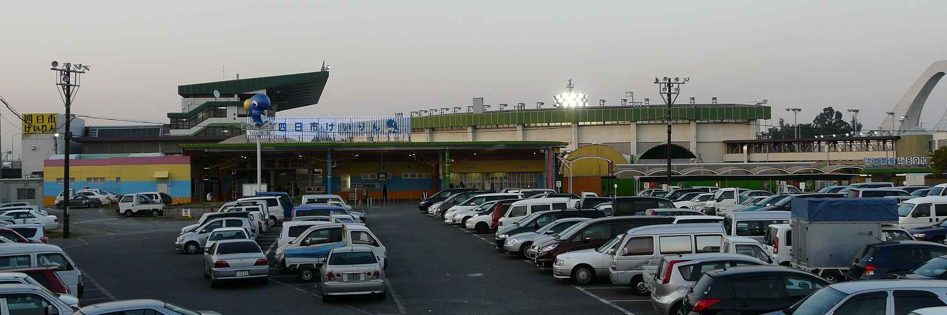 Yokkaichi-keirin-1